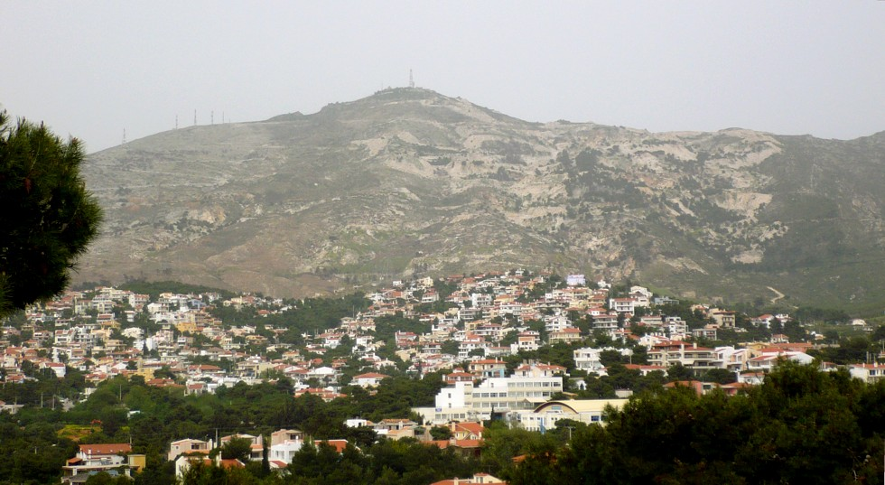 The above picture depicts the city of Nea Penteli.